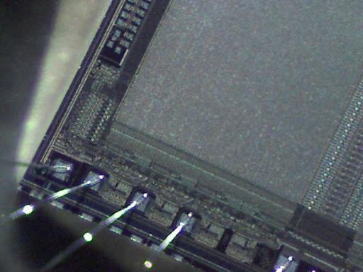 A 60x closeup of a BIOS, made with a QX5 microscope. Hector Vega Rodriguez